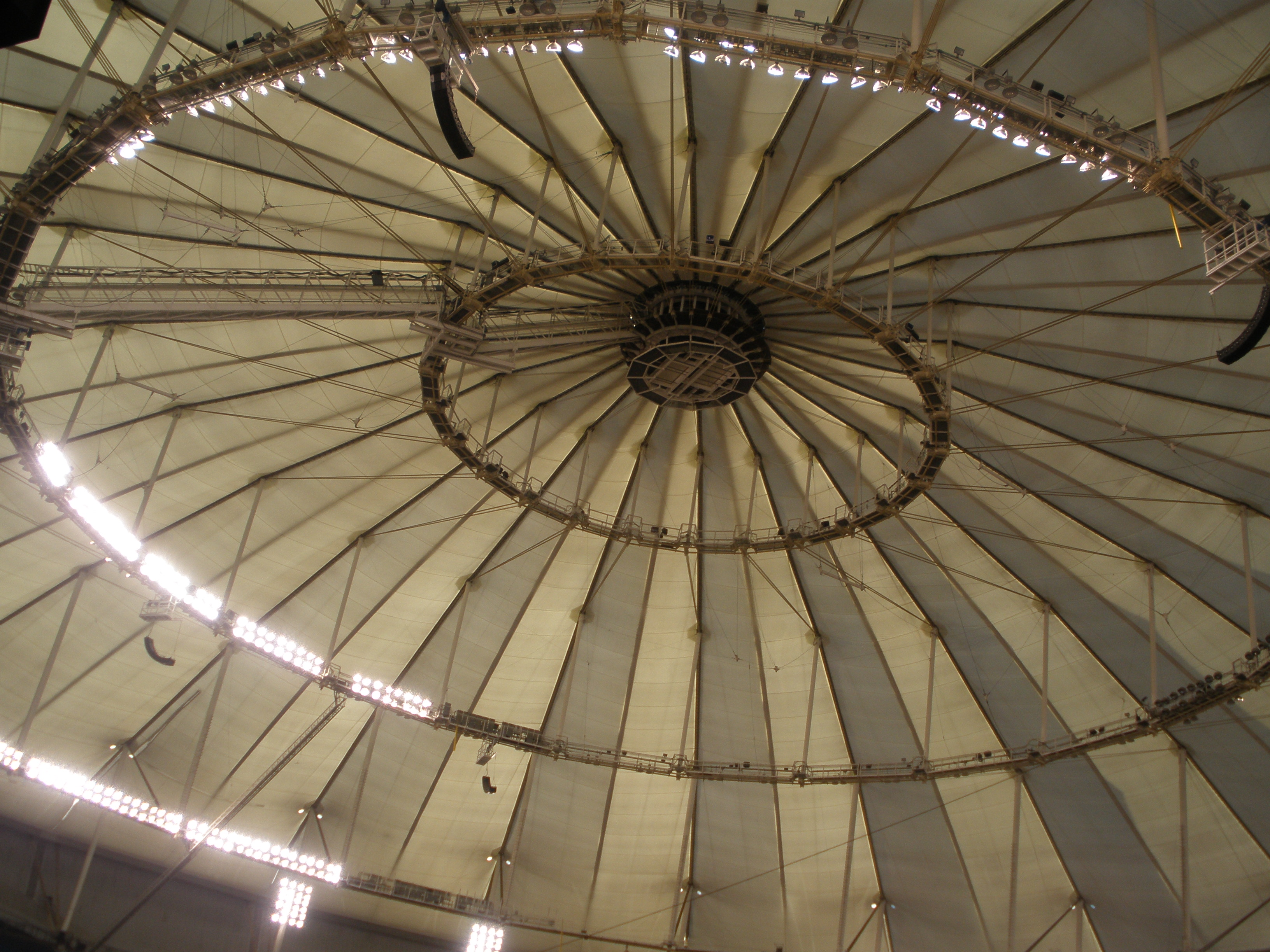 Photo of the interior of the Tropicana Field dome ceiling, along with A, B, and C ring catwalks.